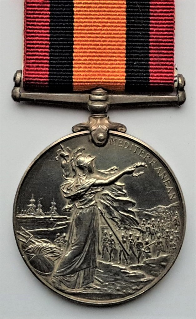 Queen's Mediterranean Medal. Second South African War, 1899-1902. Obverse